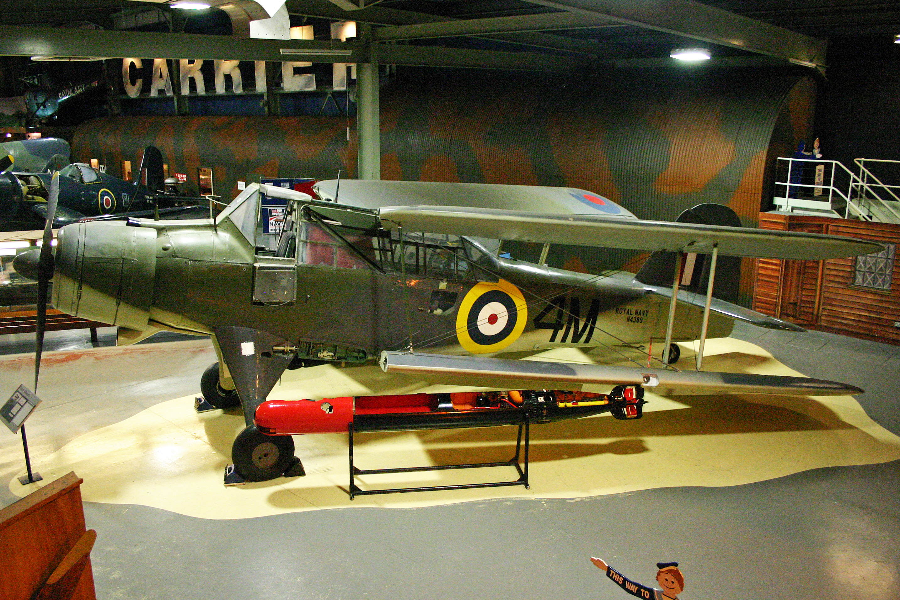 Composite rebuild using parts of N4172 and N4389. This is the only complete example in existance. FAA Museum Yeovilton. 15-6-2011